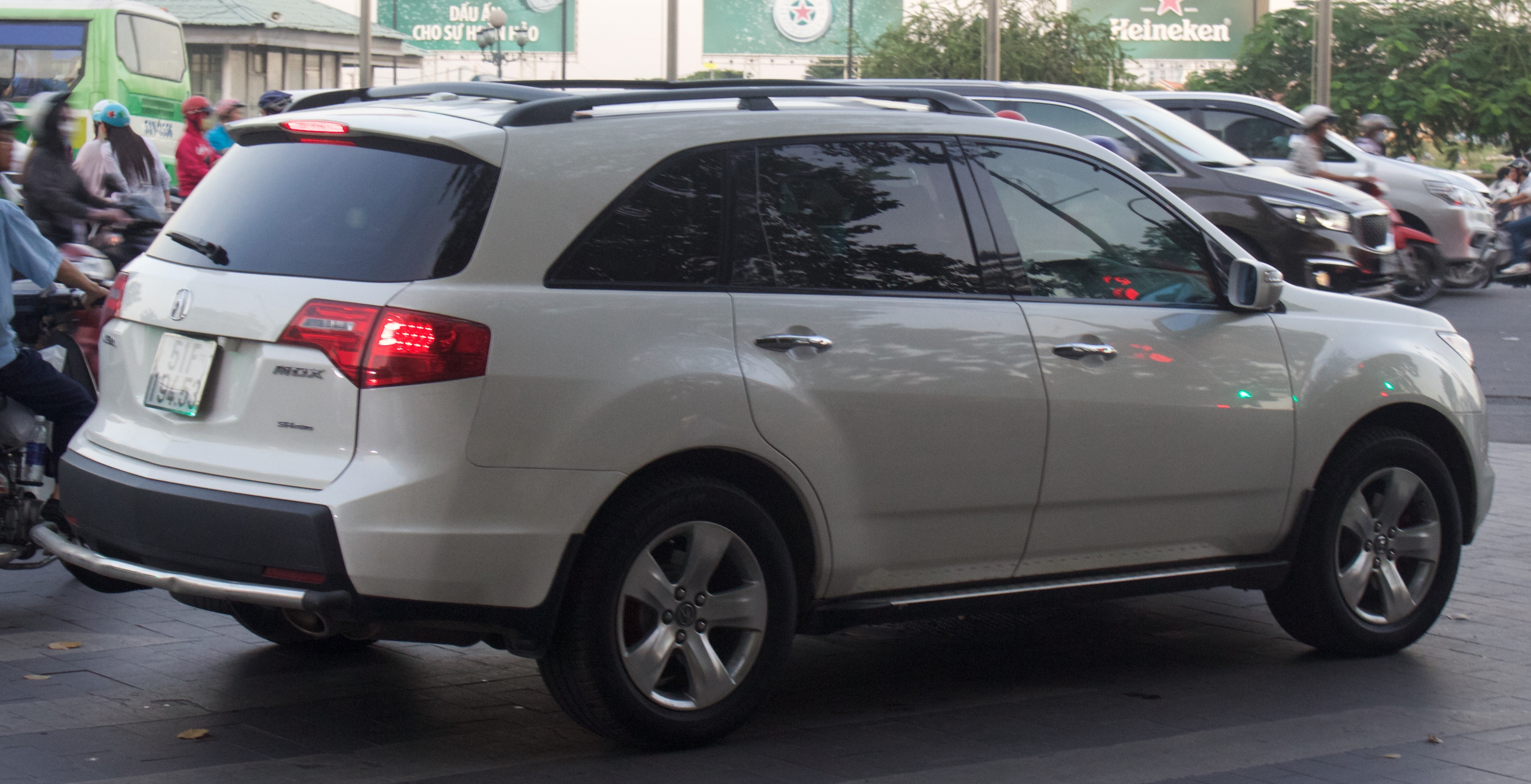 2008-2009 Acura MDX, photographed in Ho Chi Minh, Vietnam.